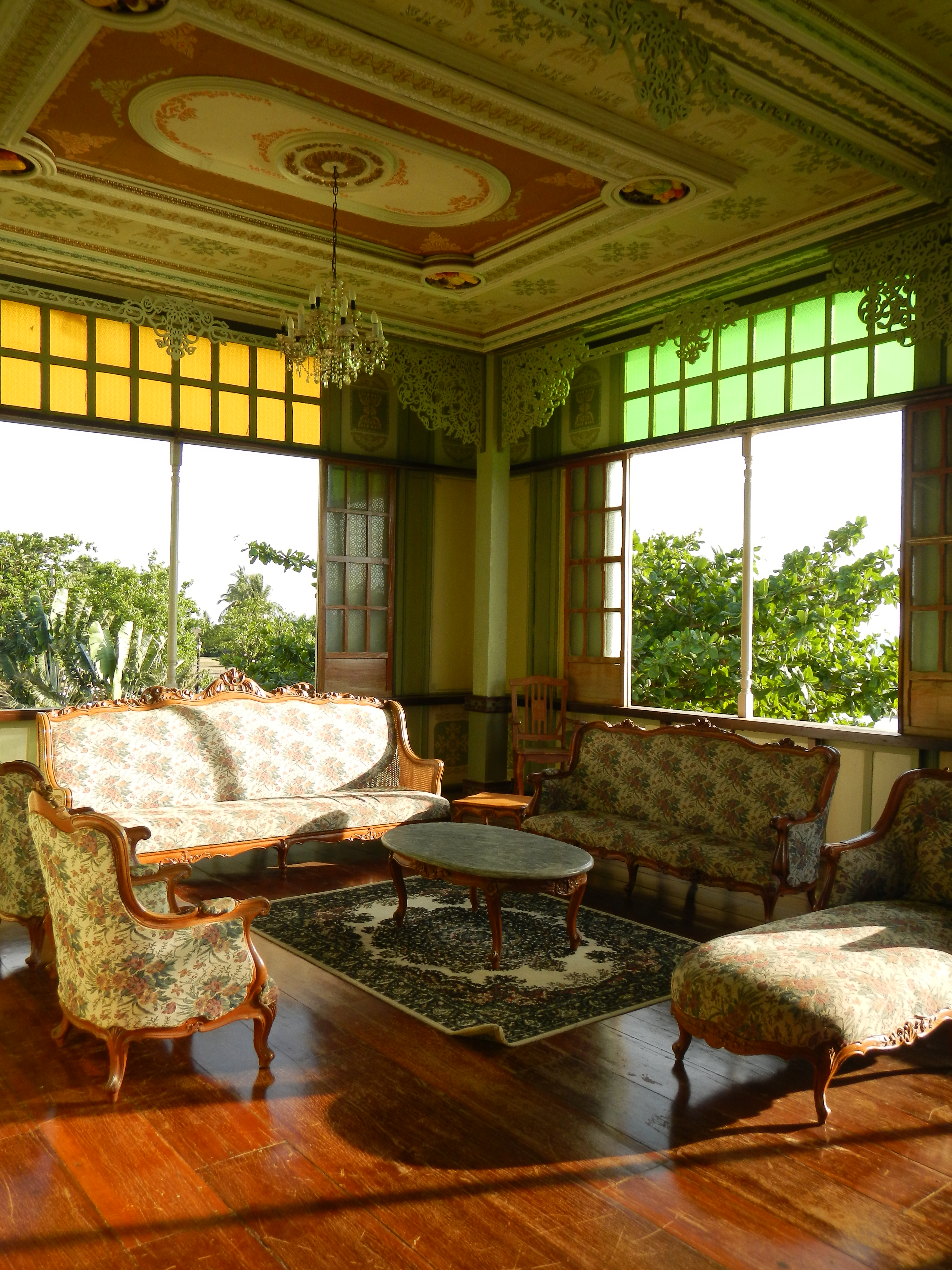 "Simply Amazing Priceless Photos - under full sun and capture by NIKON AW100 shockproof and underwater, -12 deg Cent." of 29 Heritage houses (rich, lavish, amazing architecture, the angles, the past to the future, hope, the culture, the history[1] in these multi-million landmarks)[2], the Bagac beaches in Las Casas Filipinas de Açúzar[3] at Bagac, Bataan[4][5] Website The Ciudad Real de Acuzar Heritage Park was the location of the TV Show Zorro of GMA Network.[6]. This is a heritage park built by José "Gerry" Acuzar, owner of the New San Jose Builders and history art collector. Inside this heritage park is a collection of Spanish Colonial buildings and stone houses (bahay na bato in Tagalog), planned to resemble a settlement reminiscent of the period. These houses were carefully transplanted from different parts of the Philippines and rehabilitated to their former splendor.[7] This place is situated in Bataan, Region 3, Philippines, its geographical coordinates are 14° 35' 53" North, 120° 23' 35" East and its original name (with diacritics) is Bagac.